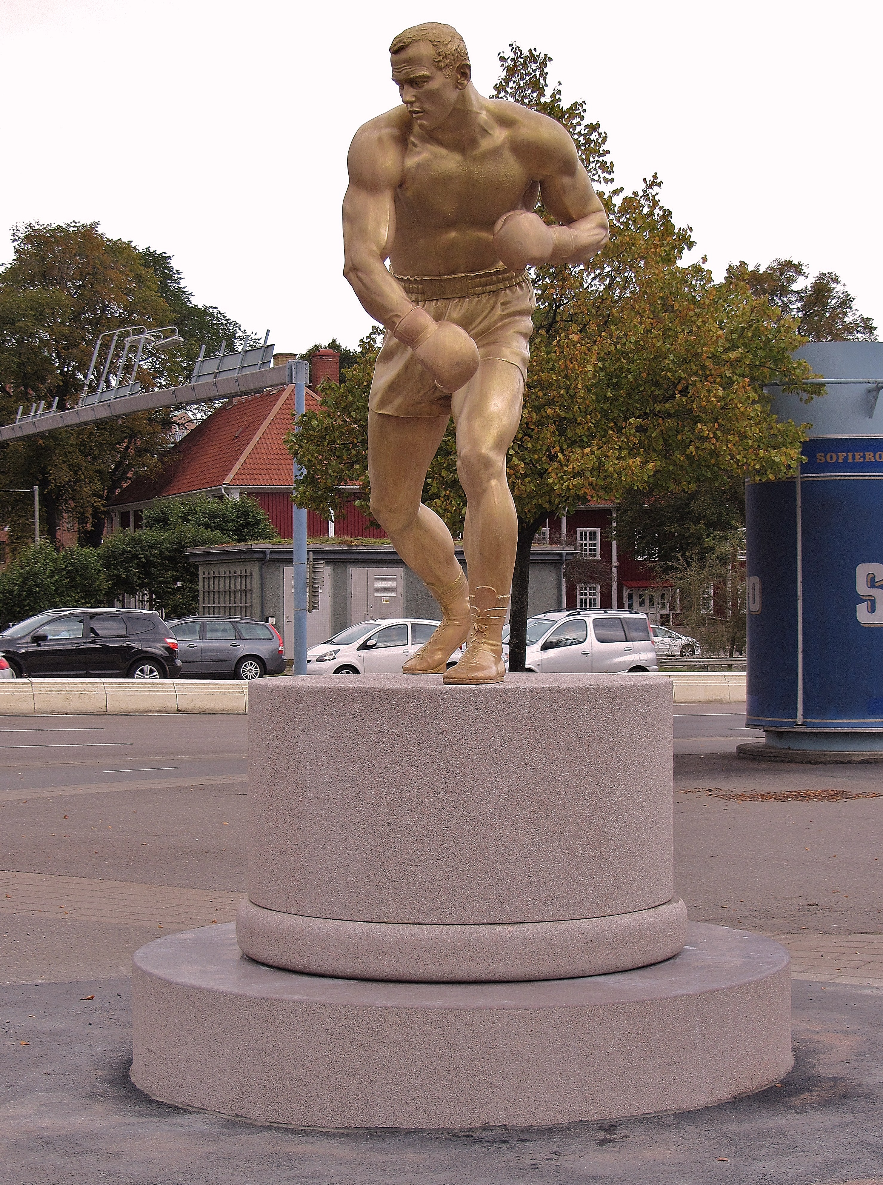 Peter Lindes statue in bronze of world heavyweight champion boxing Ingemar Johansson was unveiled in Johanssons home town on saturday, September 17th, 2011, outside Ullevi - the stadium where Johansson fought a memorable match in 1958 against Eddie Machen.